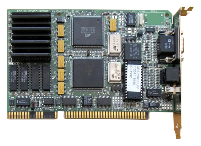 ATi Mach8 graphics adapter